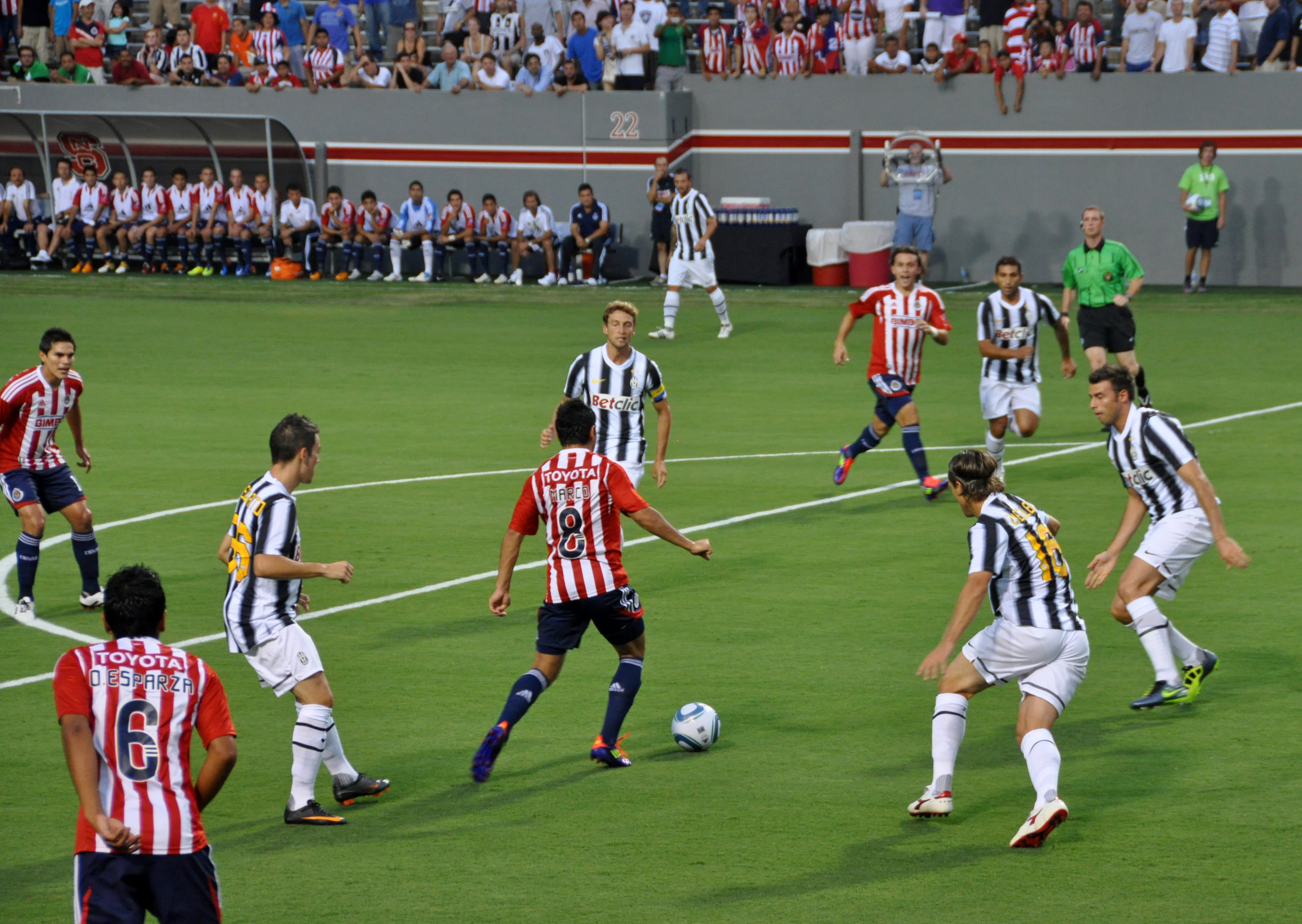 7/28/11 Guadalajara Chivas vs Juventus FC at Carter-Finley Stadium, Raleigh, NC